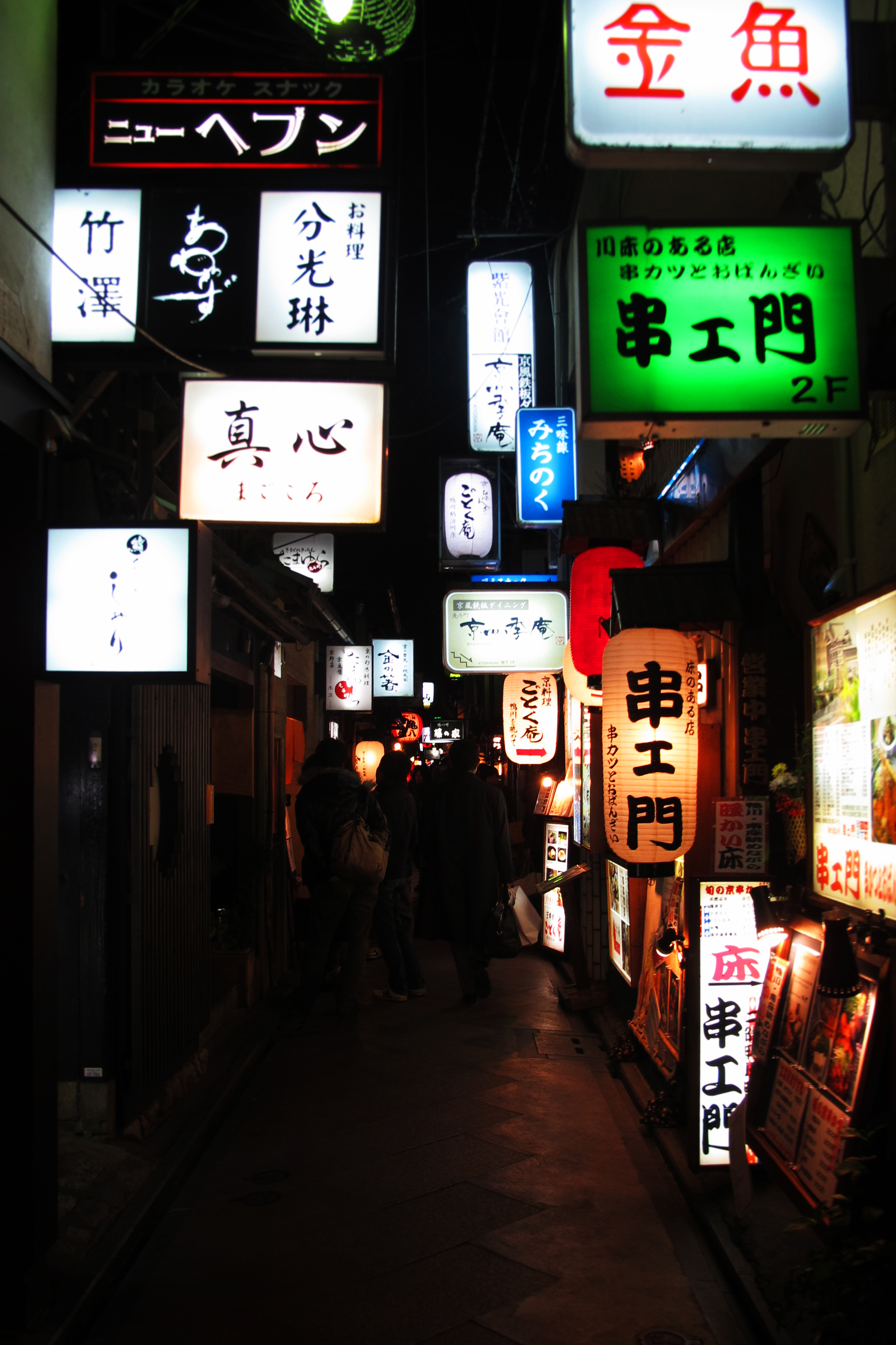 Ponto-cho nightlife district of Kyoto, Japan